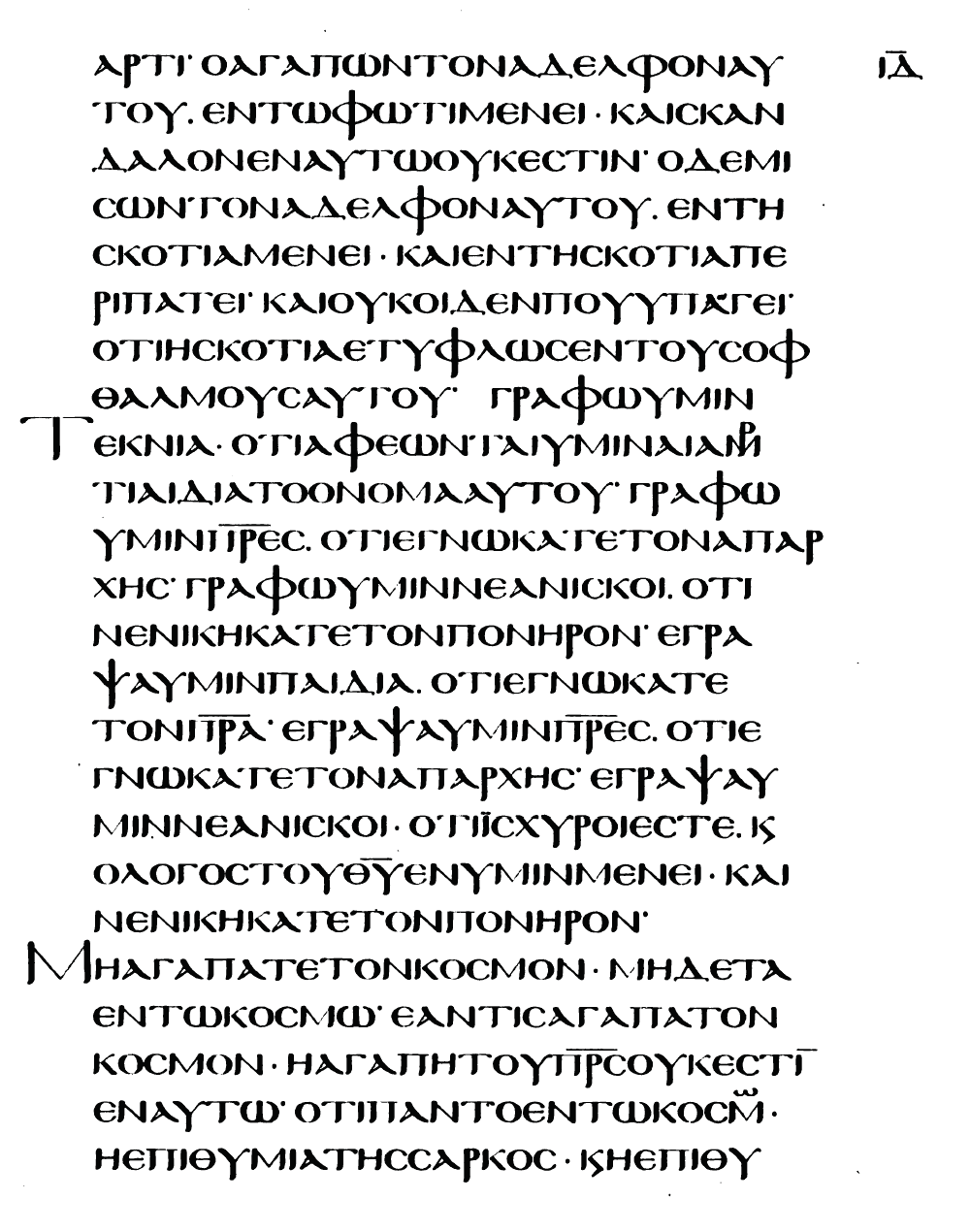 text of 1 John 2,9-16 from Tischendorf's facsimile edition (1865)